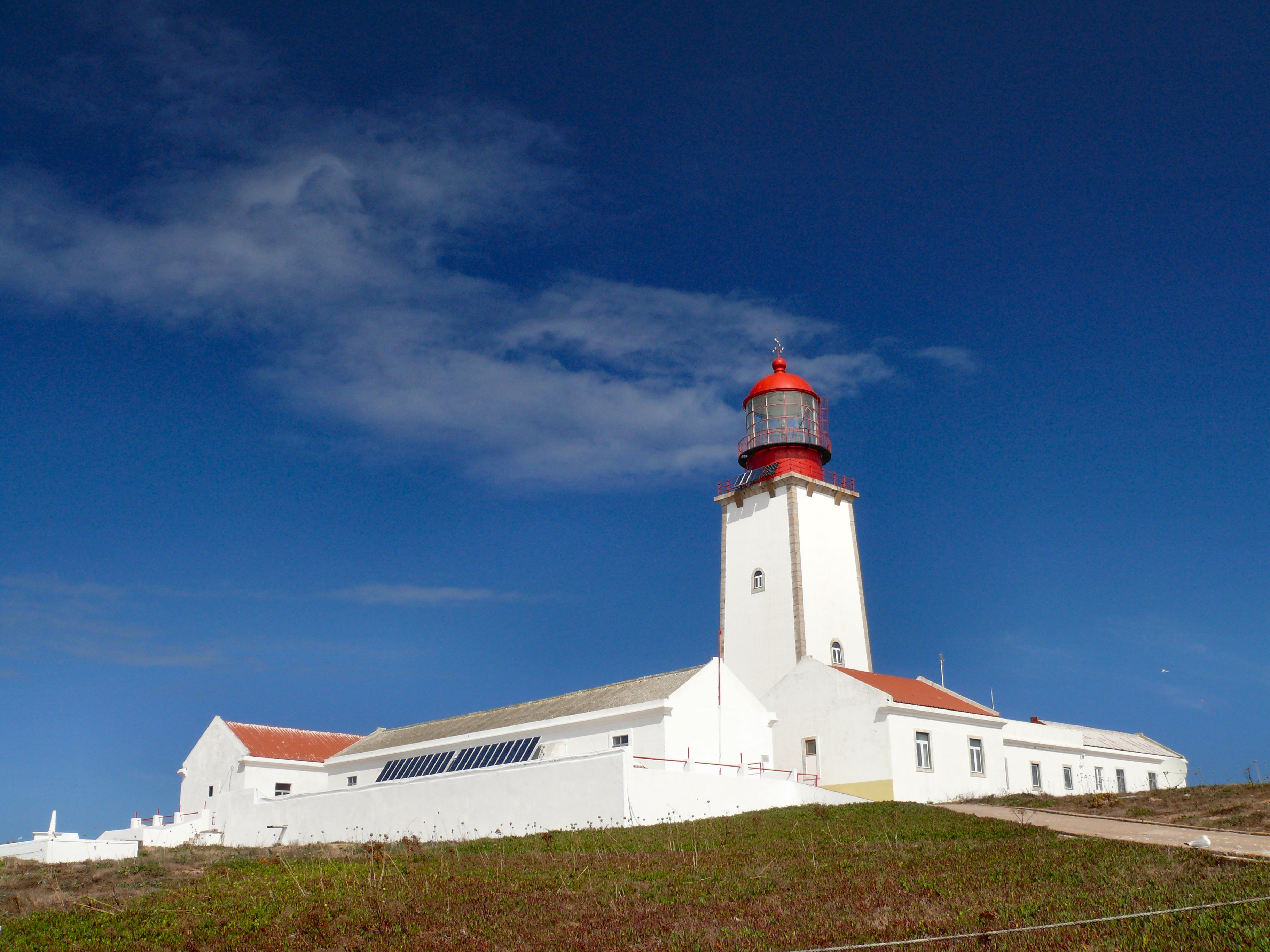 Berlenga Lighthouse, Berlenga Island, Peniche municipality, Leiria district, Portugal.